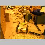 robot in the RoboCupRescue robot competition - RoboCup 2004 source:self-made